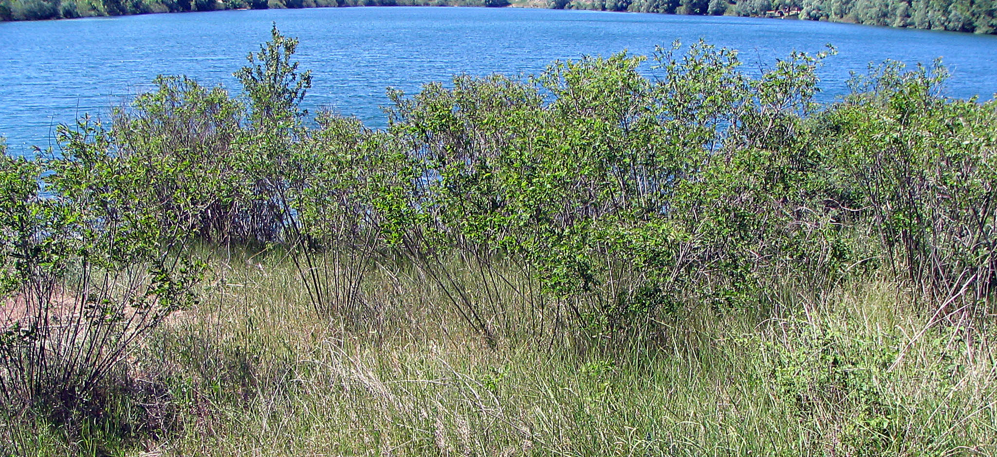 Subspontaneous population of Amorpha fruticosa in Makis near Sava river, Belgrade.